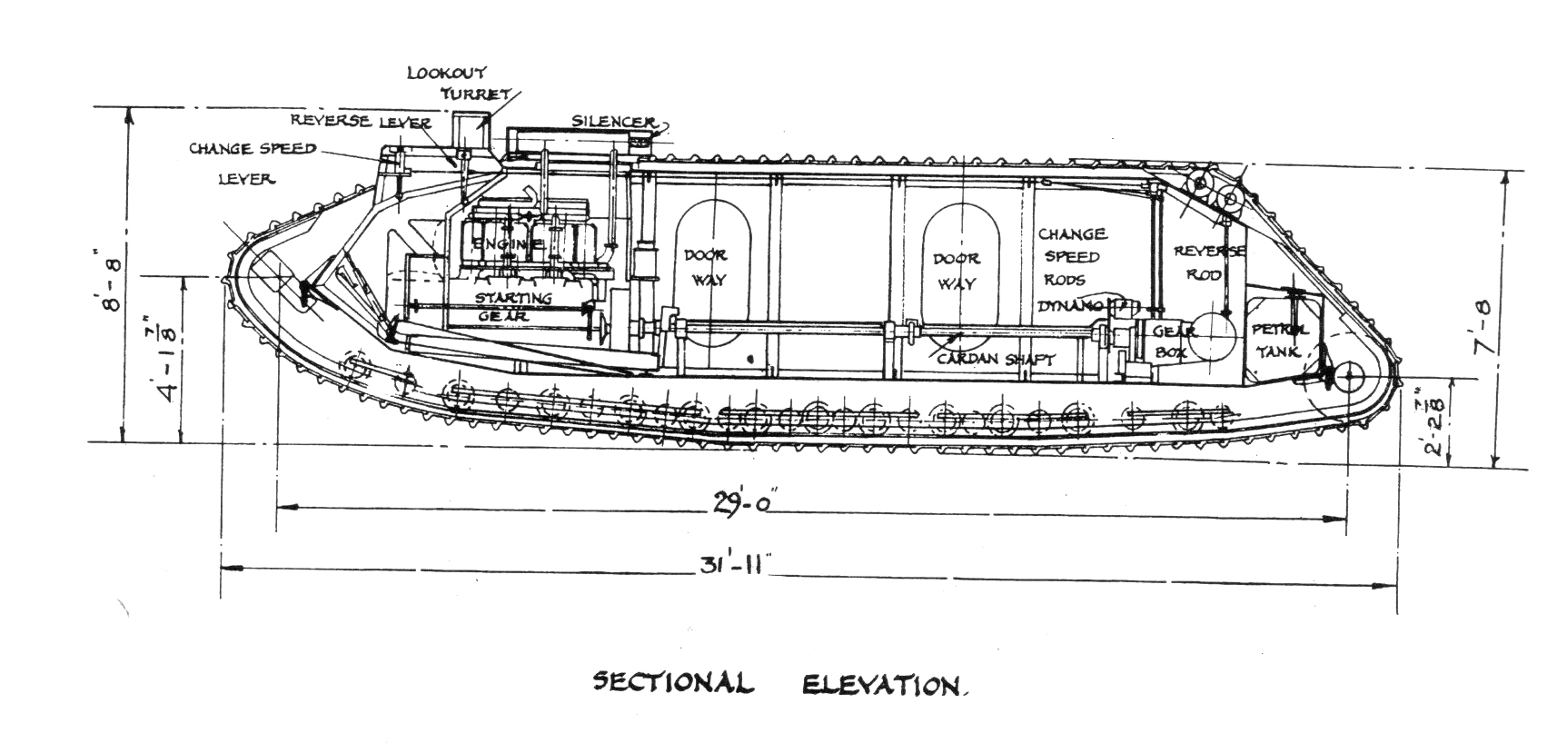 Original design for the Mark IX tank / troop carrier.